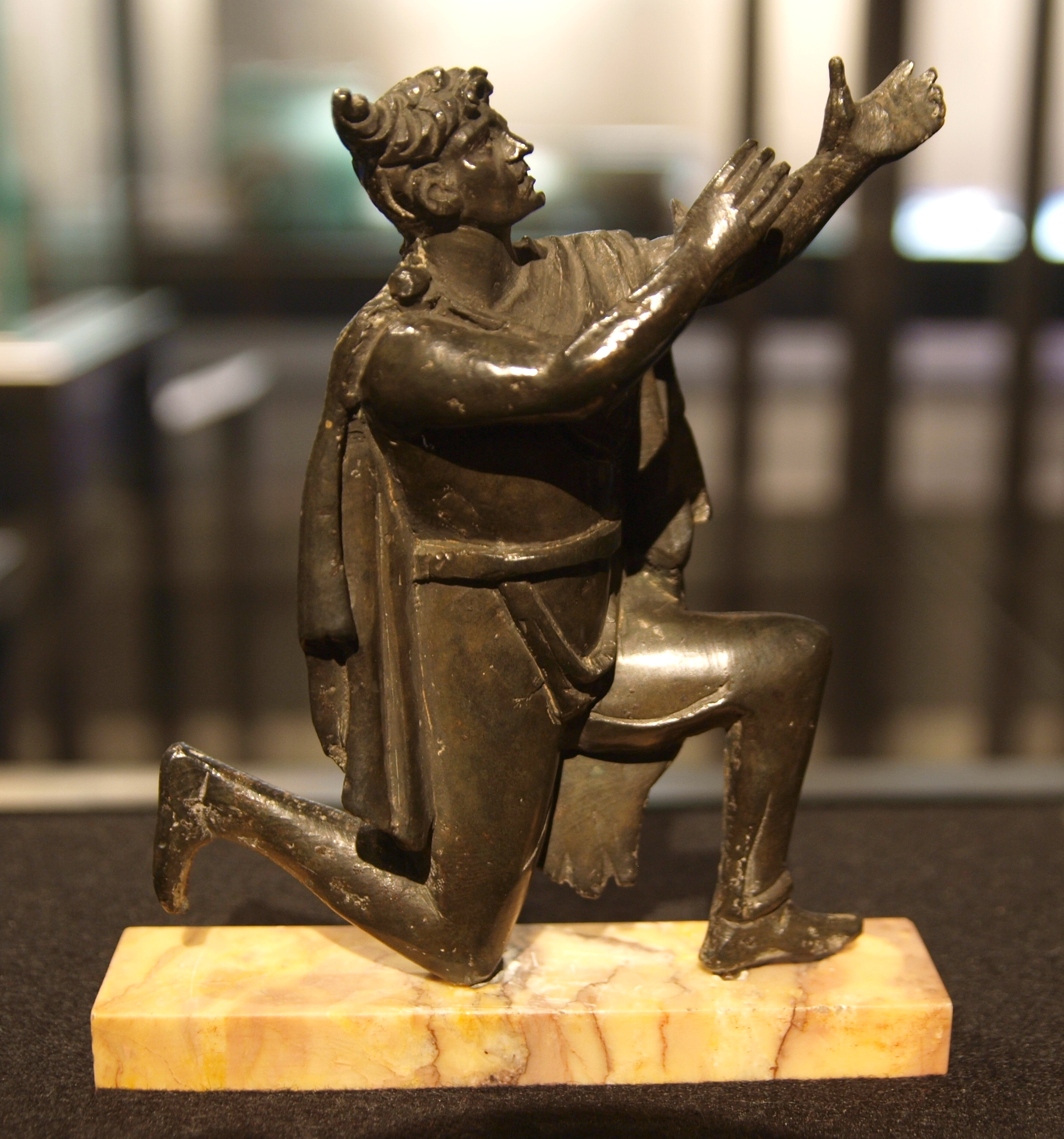 Roman bronze figure, discovered in the National Library in Paris, France, in the late 19th century. The Germanis is wearing a typical suebian knot hairstyle and a characteristic cloak. Bibliothèque Nationale de France Paris, Cabinet des Bédailles Paris, Invenory No. 915. Dating to 2nd half 1st century to 1st half 2nd century A.D. The history of interpretation of the figure after its discovery is interesting, as it mirrors the developing nationalism of the time. The French interpretation was as that of a German nobleman in a gesture of submission, asking a Roman legionary to spare his life. The German interpretation was that of a "praying Germanic man" (Betender Germane). More recent authors tend to favour the "French" view, as this is Roman artwork, the lost context of which presumably was not depicting Germanic religious customs but a scene of victory of the Roman army over Germanic tribesmen (Heinz Demisch, Erhobene Hände: Geschichte einer Gebärde in der bildenden Kunst, 1984, p. 167).